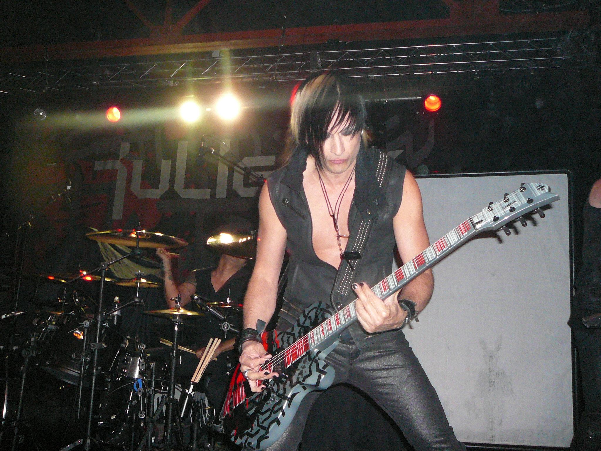 Amir Derakh with Julien-K on June 17, 2008 in Downtown, Nashville, TN, US.